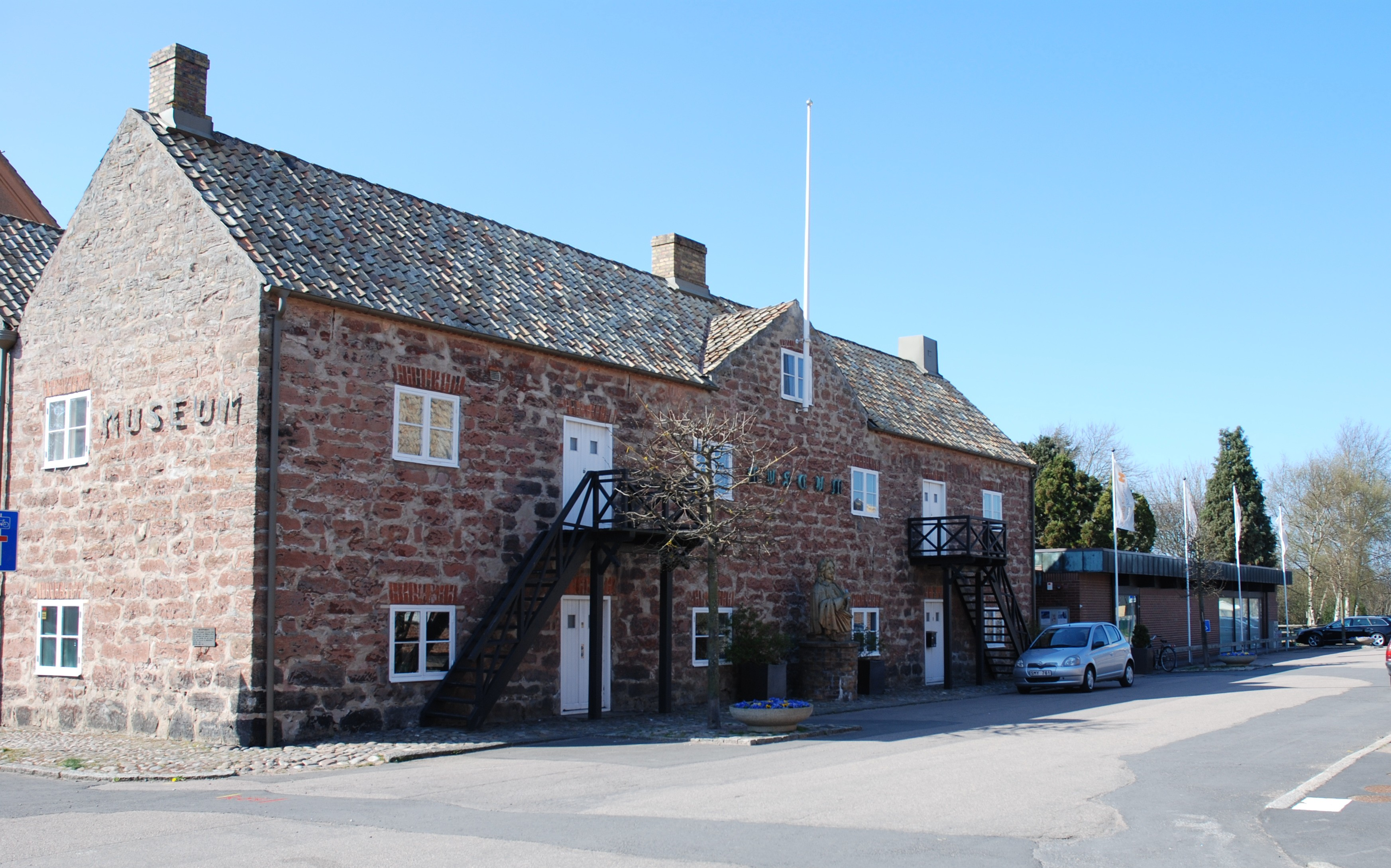 Höganäs Museum och Konsthall (Höganäs Museum and Art Gallery), Sweden